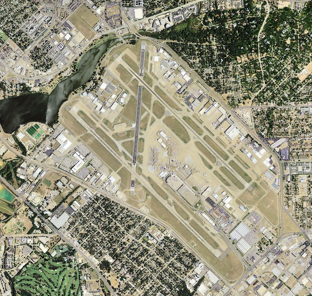 Love Field Dallas 2006 USGS Orthophoto